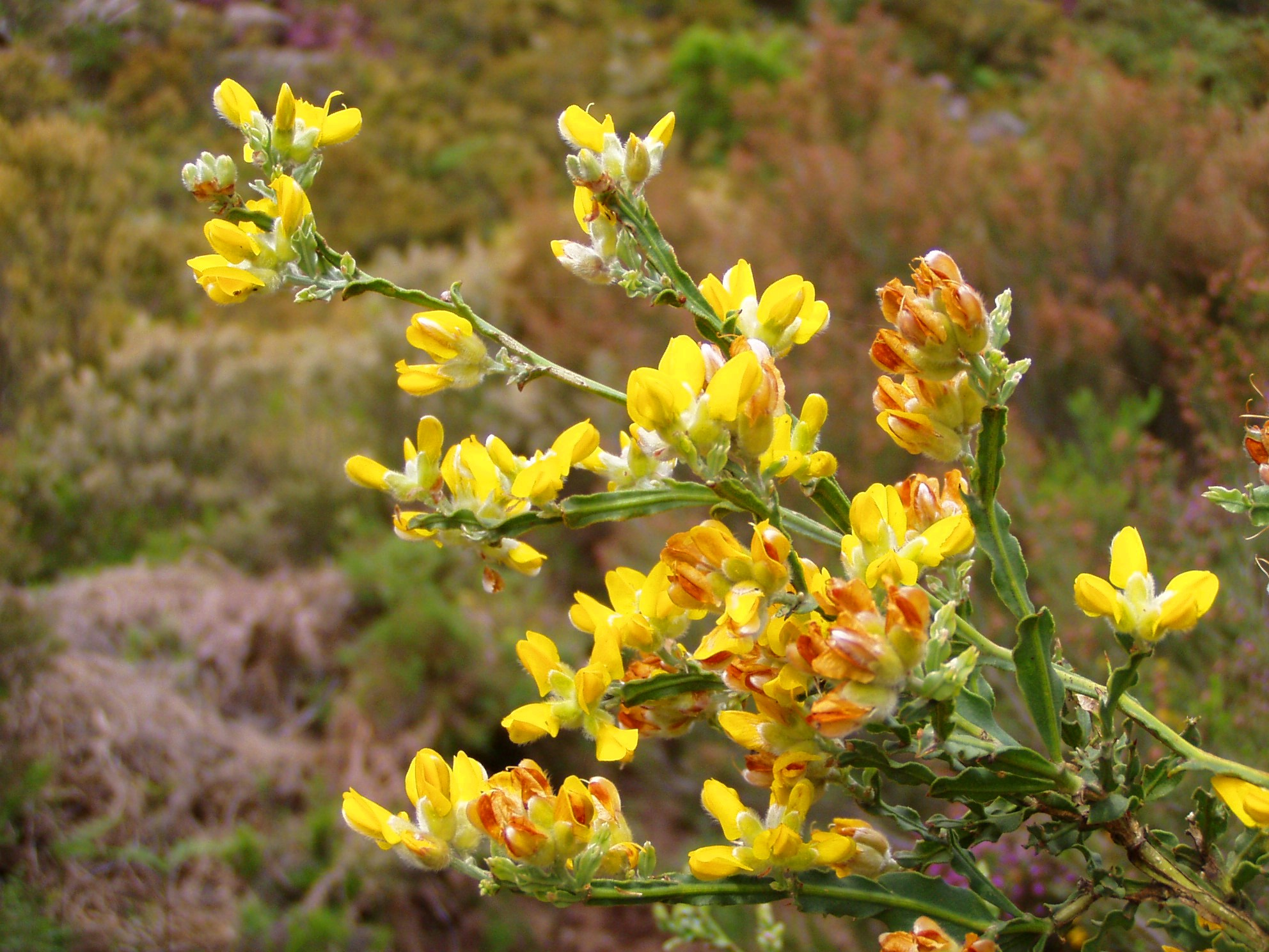 Carquesia